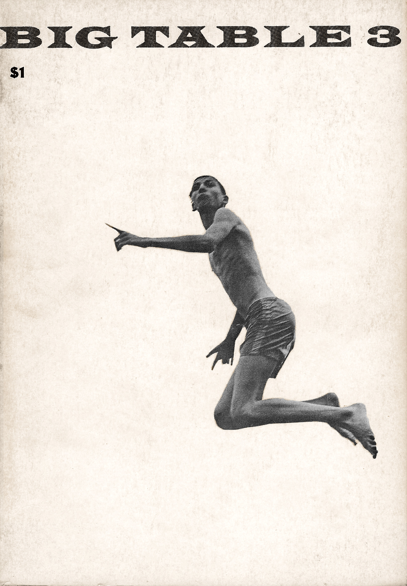 Cover of the third issue of the American literary magazine Big Table.